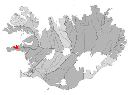 Based on Municipalities of Iceland.png.